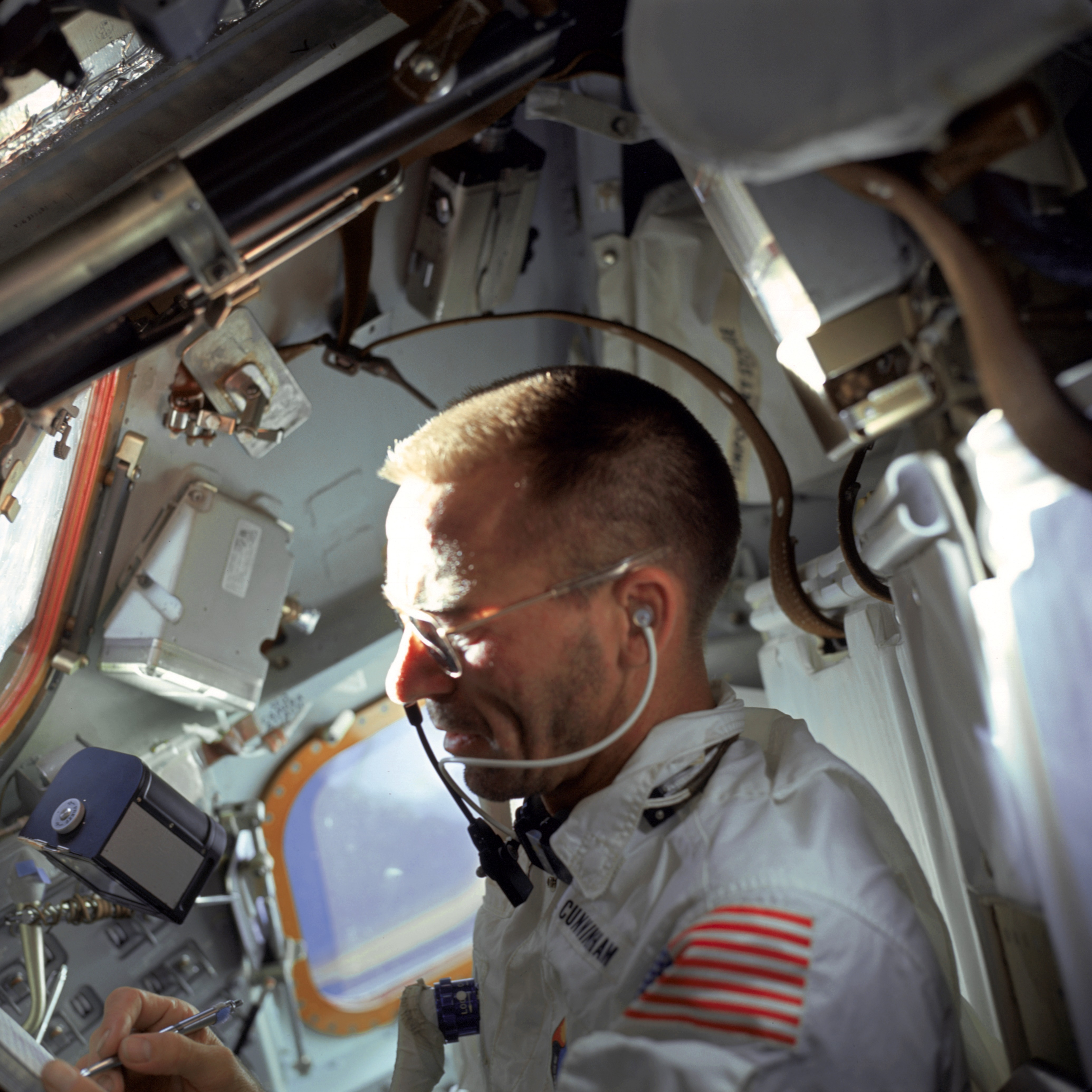 Astronaut Walter Cunningham, Apollo 7 lunar module pilot, writes with space pen as he is photographed performing flight tasks on the ninth day of the Apollo 7 mission. Note the 70mm Hasselblad camera film magazine just above Cunningham's right hand floating in the weightless (zero gravity) environment of the spacecraft.